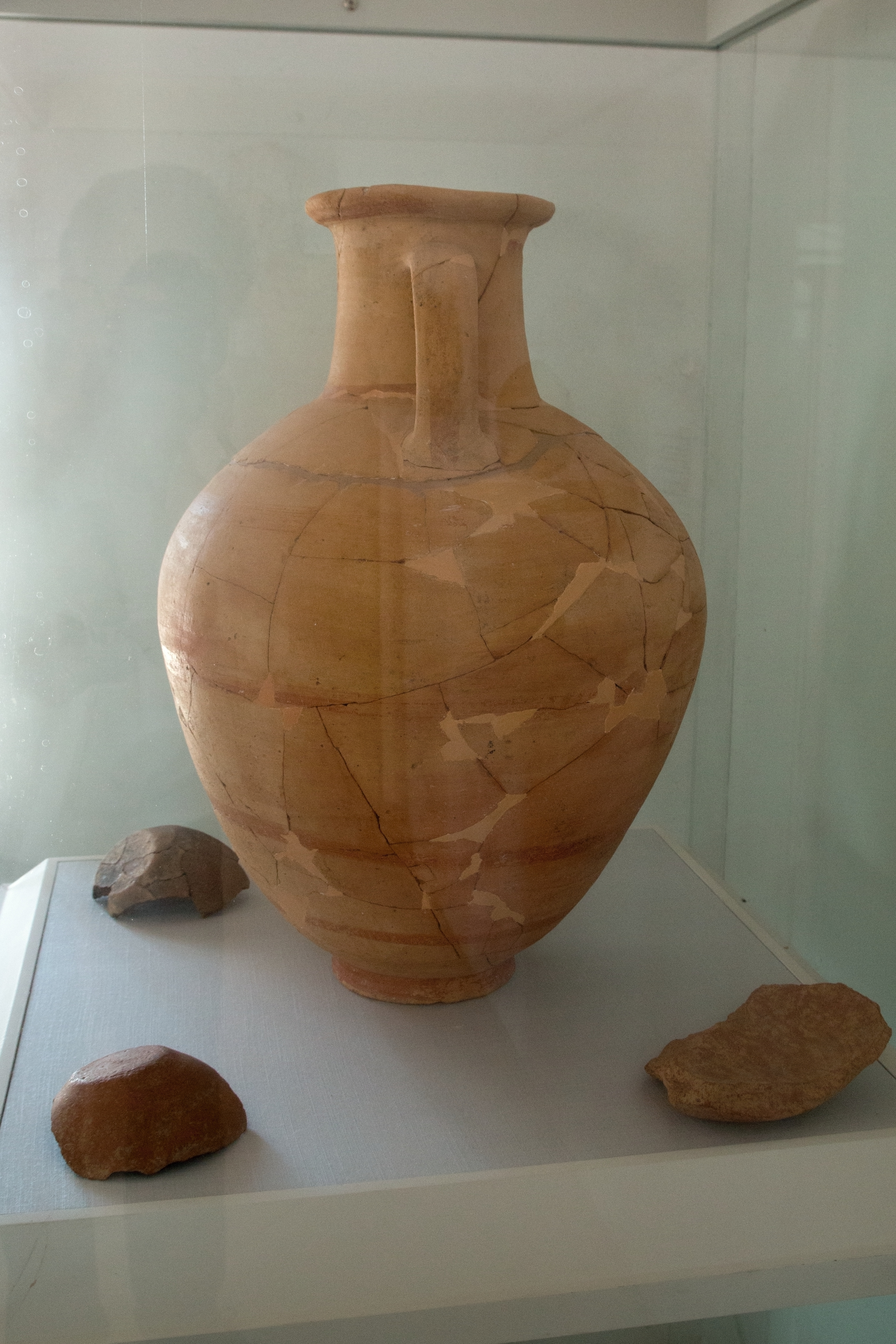 From a grave on Amorgos. Findings of the Greek proto-geometric period? Archaeological Collection of Amorgos.